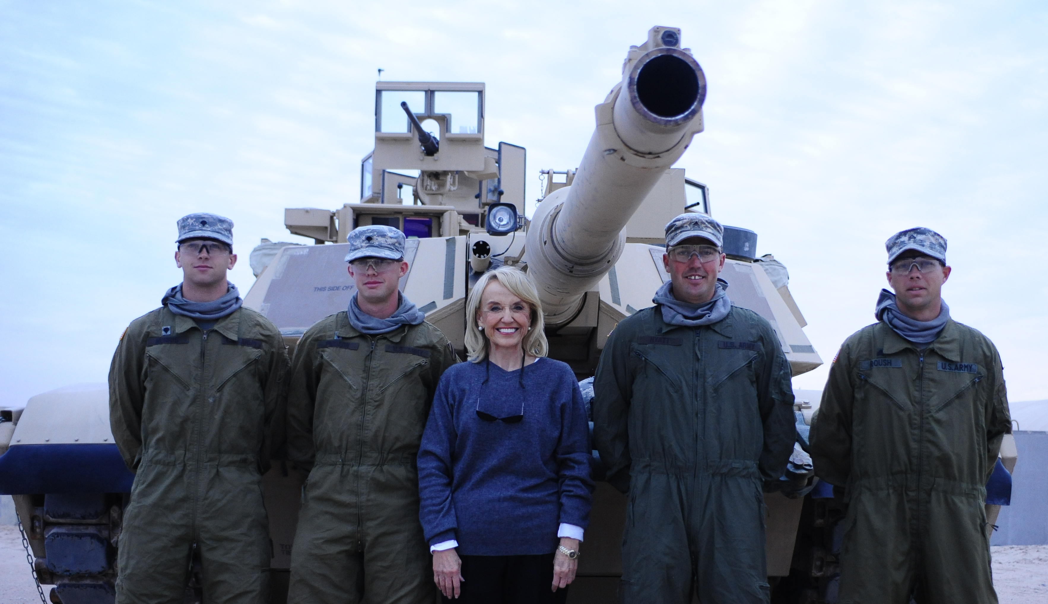 Arizona Gov. Jan Brewer poses with an M1A2 Abrams Main Battle Tank crew assigned to the 3rd Armored Brigade Combat Team, 3rd Infantry Division at Camp Buehring, Kuwait, Dec. 4. The crew gave Brewer a tour of the Abrams during her recent trip to Camp Buehring. Brewer ate dinner and talked with soldiers after meeting 3rd ABCT Arizona natives and taking a tour of the camp. The 3rd ABCT has been conducting partnership training with their Kuwaiti counterparts building upon the military ties between Kuwait and the U.S.